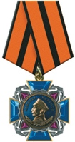 Order of Nakhimov (Russia)